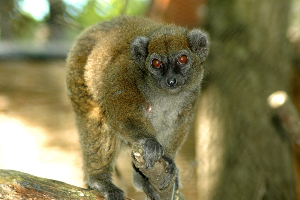 Lac Alaotra Bamboo Lemur (Hapalemur alaotrensis) in the Szeged Zoo, Szeged, Hungary